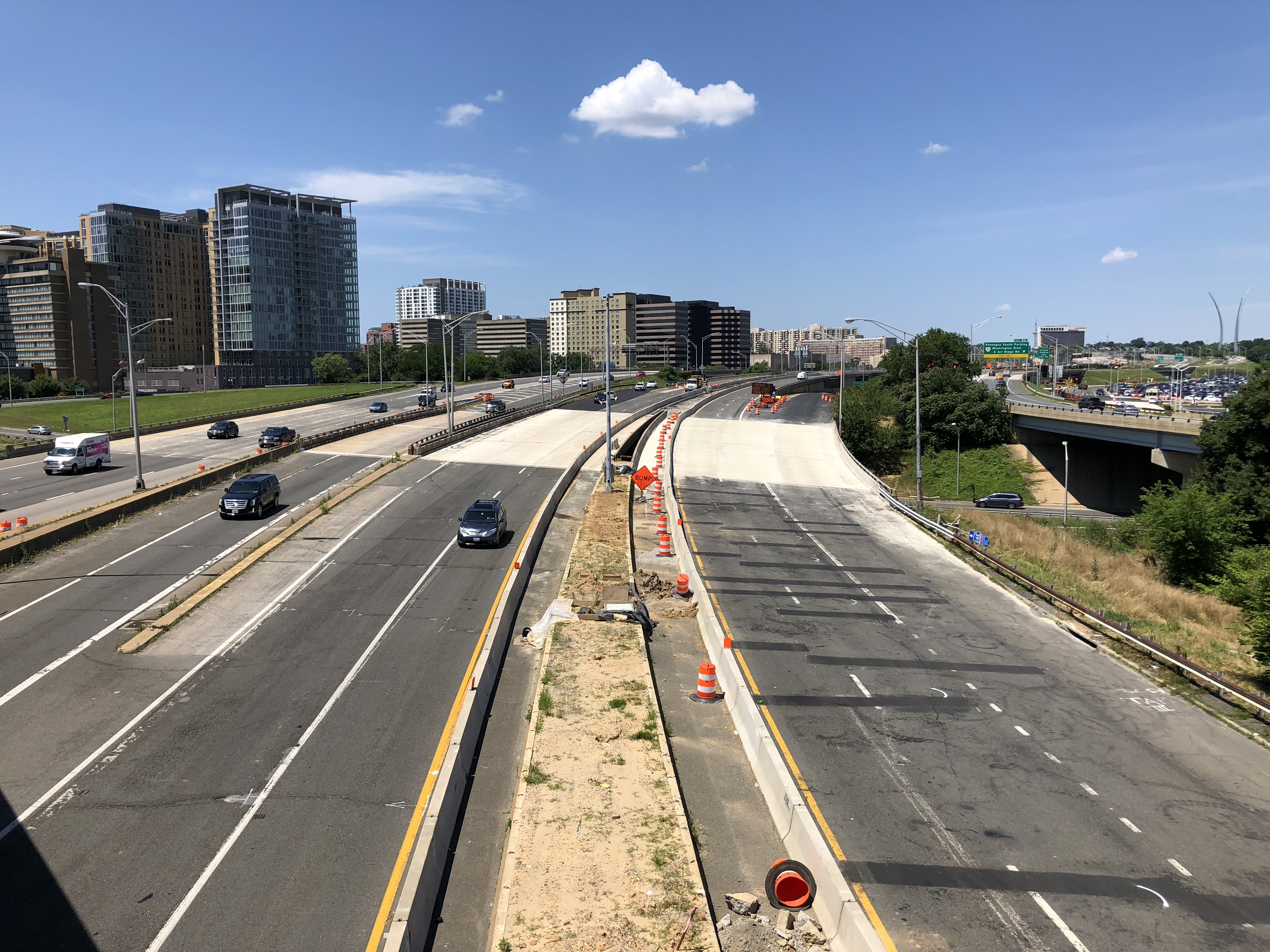 View south along Interstate 395 (Henry G. Shirley Memorial Highway) from the overpass for U.S. Route 1 southbound (Richmond Highway) in Arlington County, Virginia